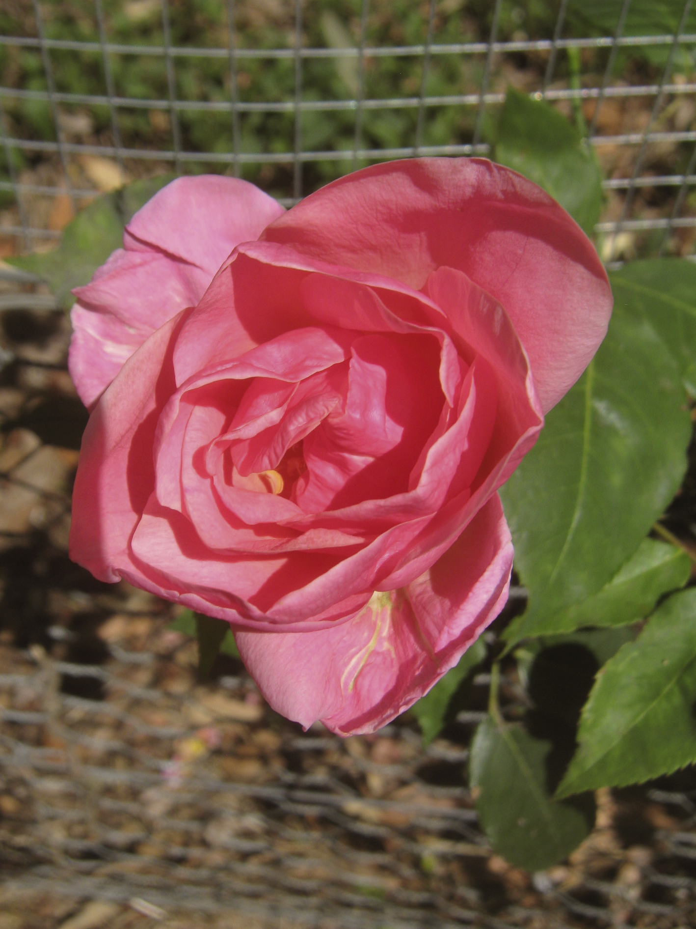 Rose 'Lorraine Lee, Cl.', strong Hybrid Gigantea sport of 'Lorraine Lee' by Alister Clark; bud photographed in the Alister Clark Memorial Rose Garden, Bulla, Victoria